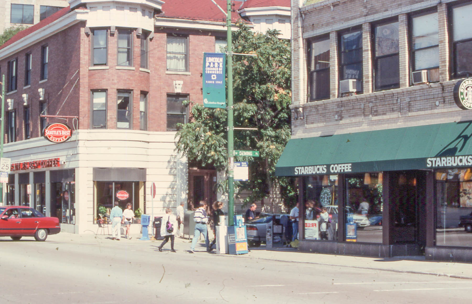 19970920 01 Clark St. @ Deming Pl. Chicago